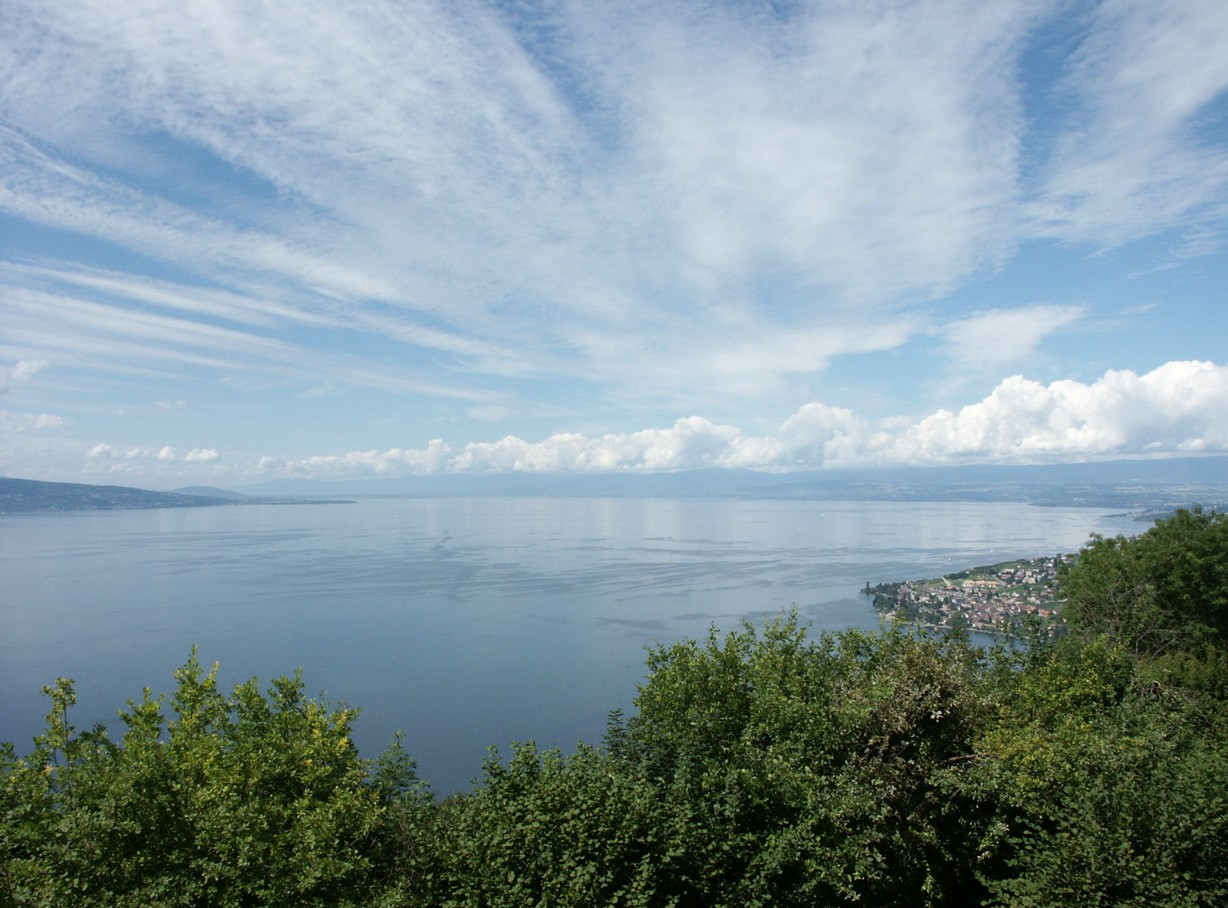 Lake Geneva (Genfersee) at Puidoux to west